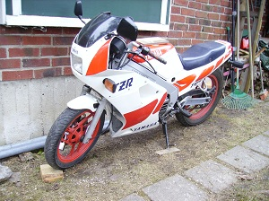 Yamaha TZR 125cc -87